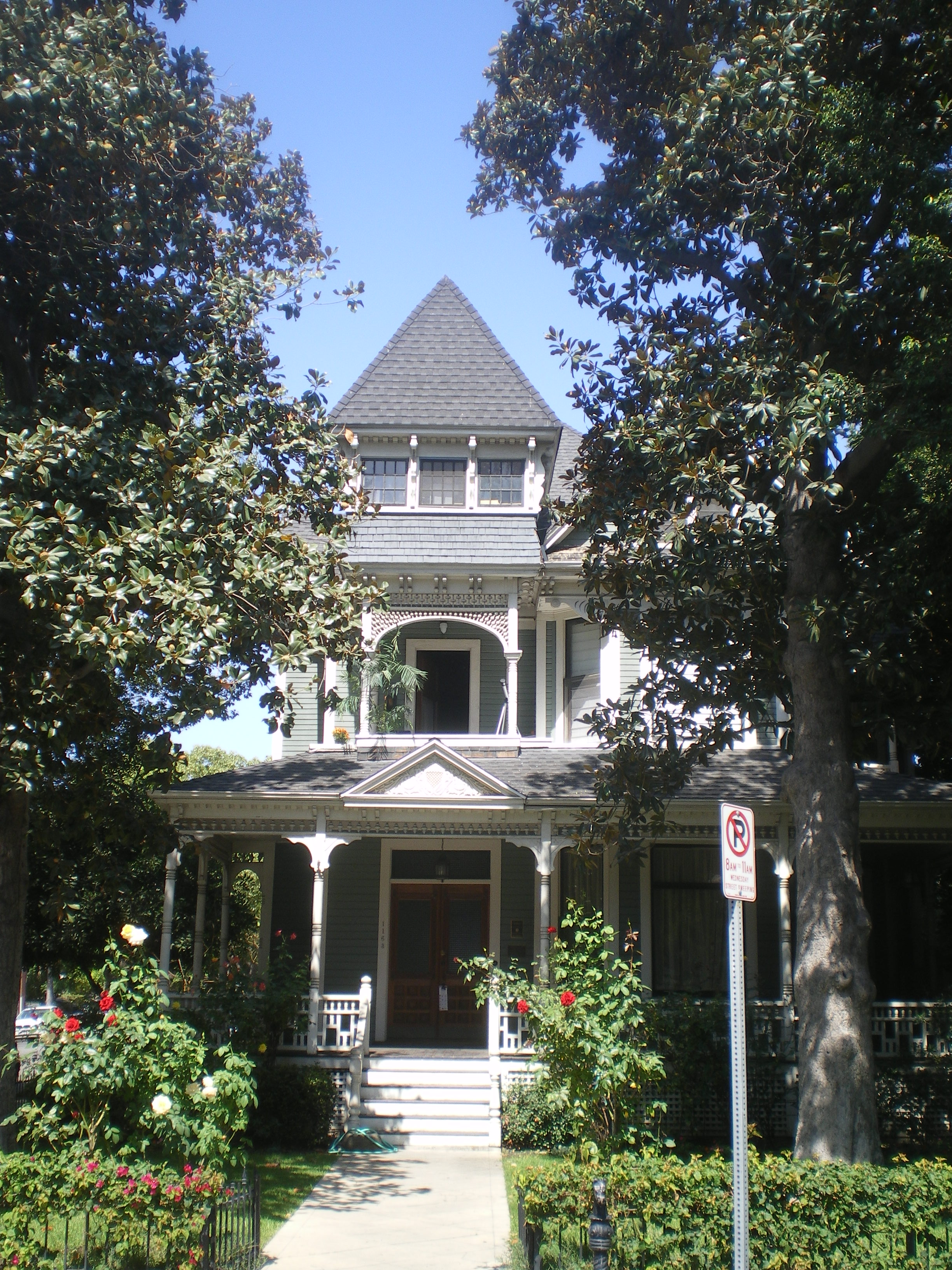 Miller and Herriott Tract House, 1163 West 27th Street, Los Angeles, California